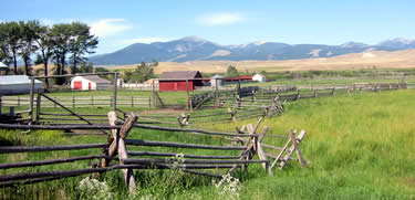 Grant-Kohrs Ranch National Historic Site Object location 46° 24′ 31.20″ N, 112° 44′ 16.71″ W This and other images at their locations on: Google Maps - Google Earth - OpenStreetMap - Proximityrama(Info)